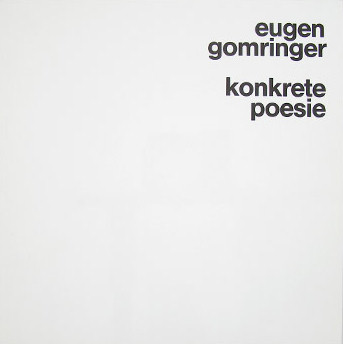 Book cover of Eugen Gomringer "Konkrete Poesie" 1972